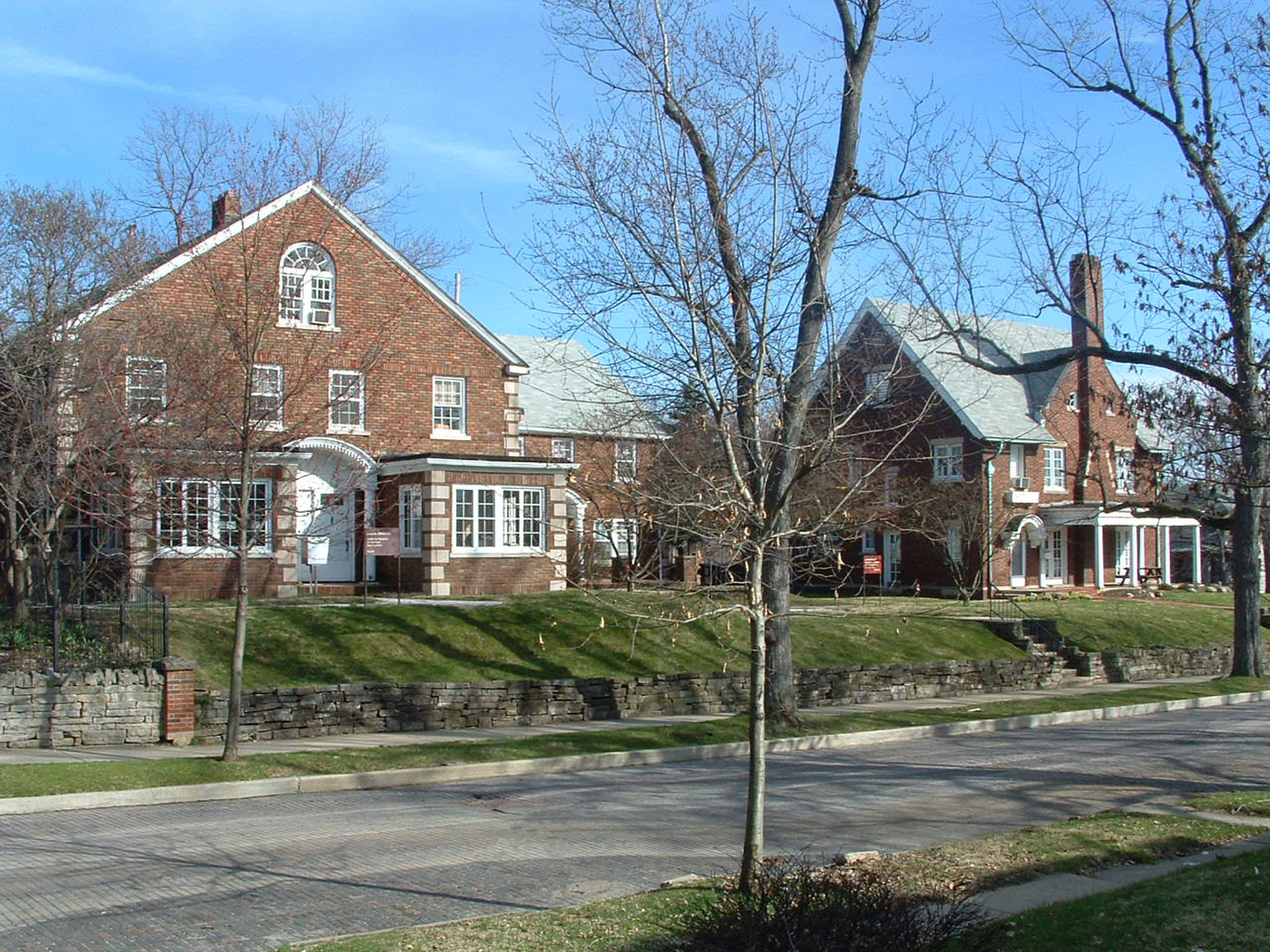 University Courts Historic District Bloomington Indiana 504, 508 and 512 N. Fess